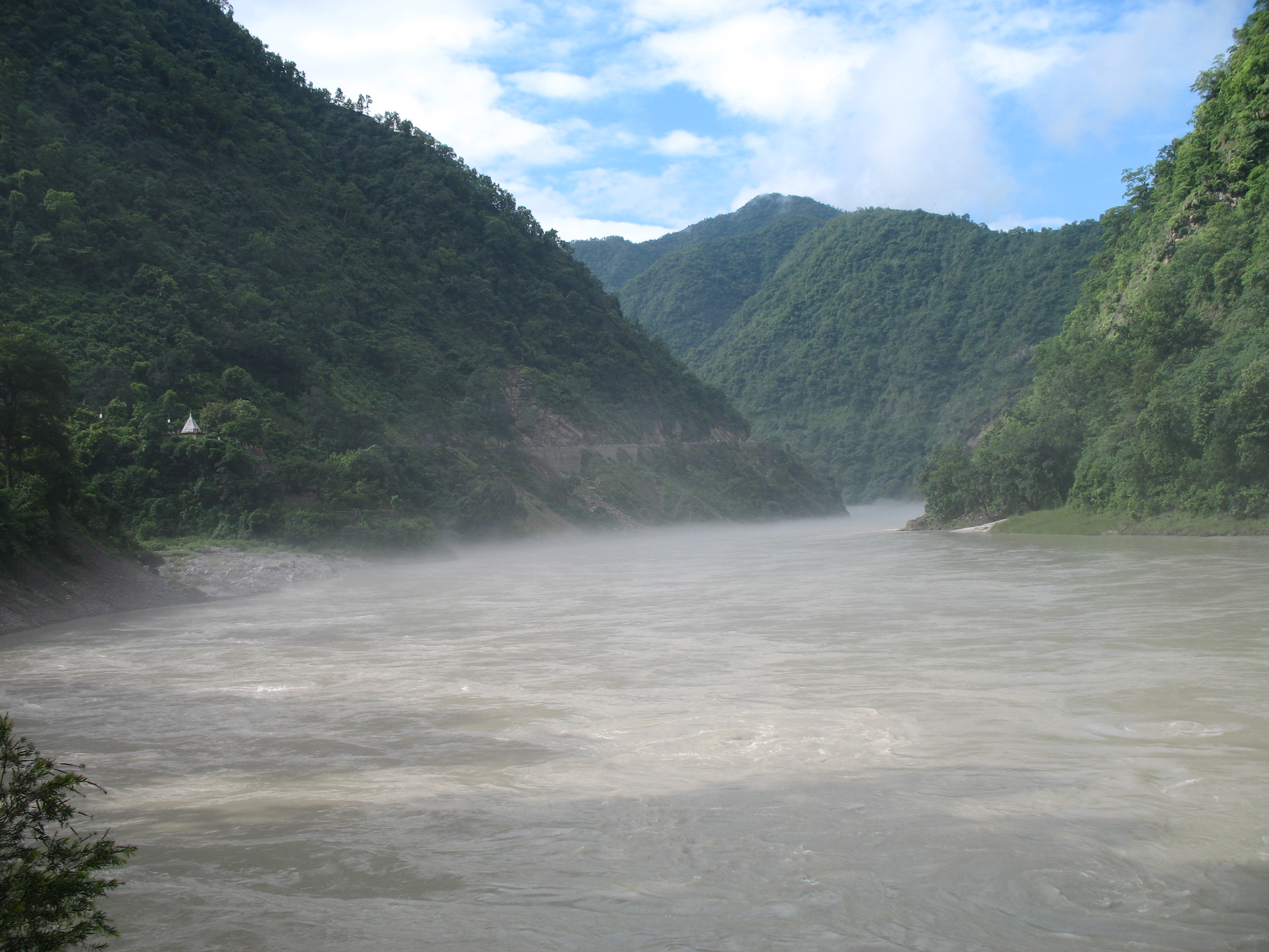 Morning mist softening the contours of the majestic Ganga at Kaudiala- a white water rafting destination ahead of Rishikesh, Uttarakhand, India